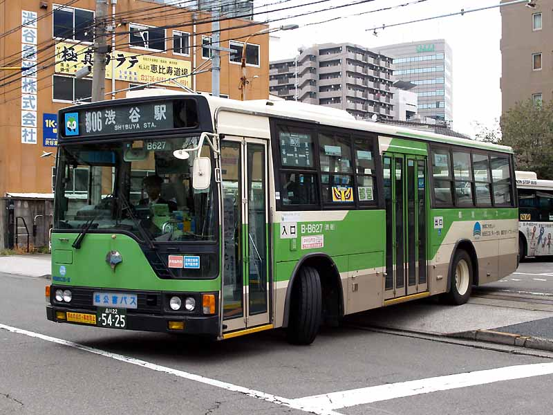 Mitsubishi Fuso Aero Star hybrid bus "MBECS-II" KC-MP637K License plate: TKS22 KA5425 （品川22か5425） since April 2008: TKA200 KA1806（足立200か1806） - changed to Edogawa dept. Place: Tobus Shibuya Dept: Shibuya-ward, Tokyo Japan